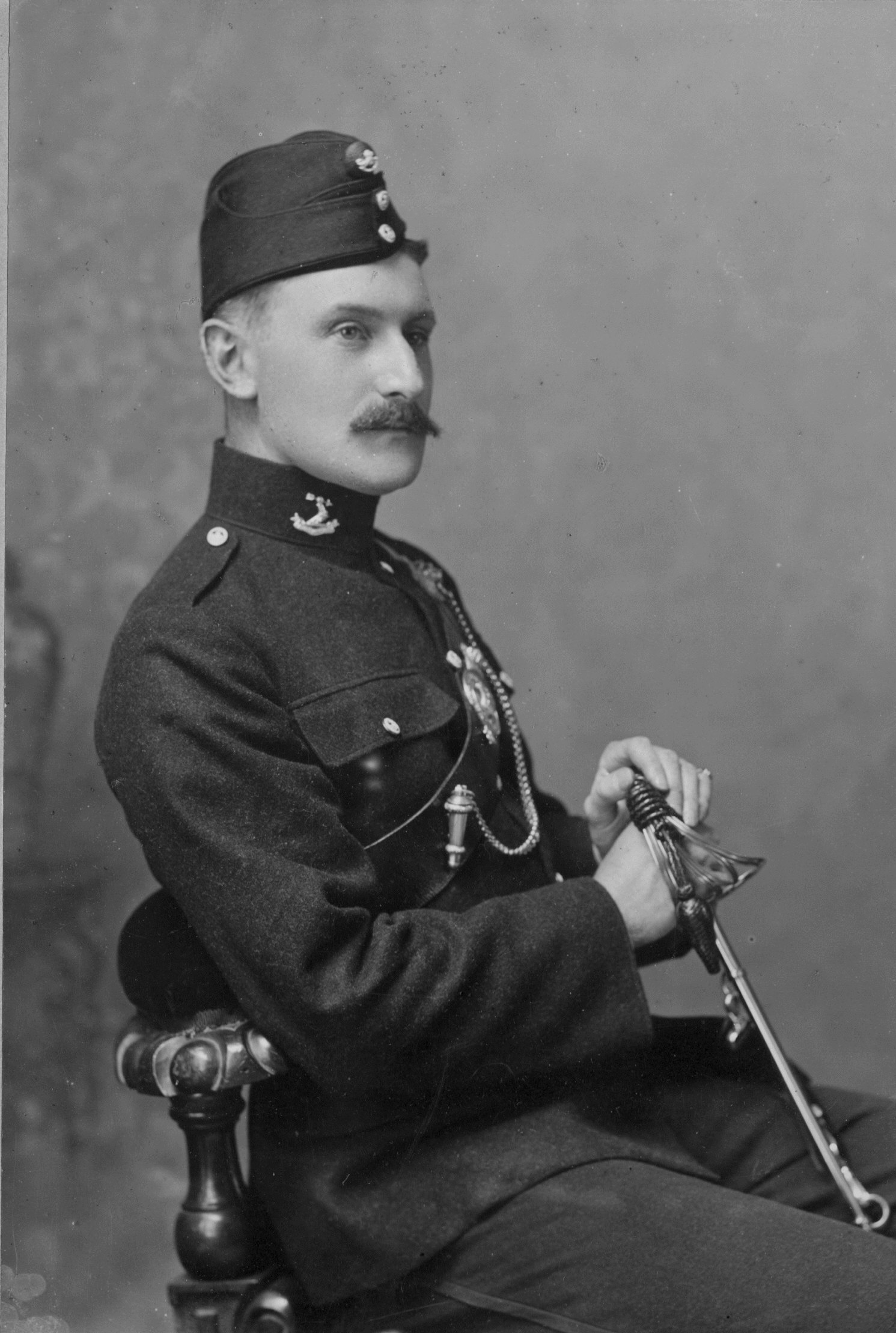 Portrait of Dr James Augustus Rooth